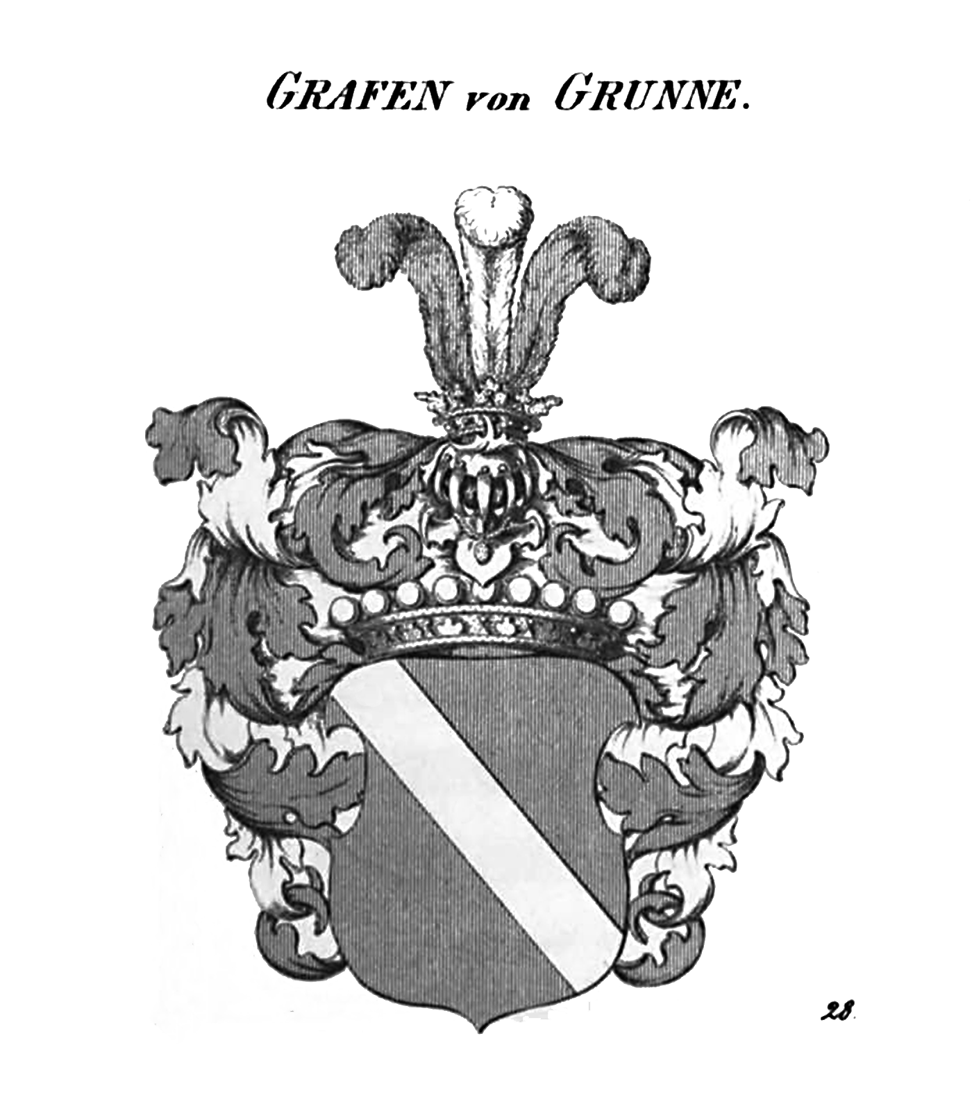 Coat of arms of Gruenne (Counts, Austria)